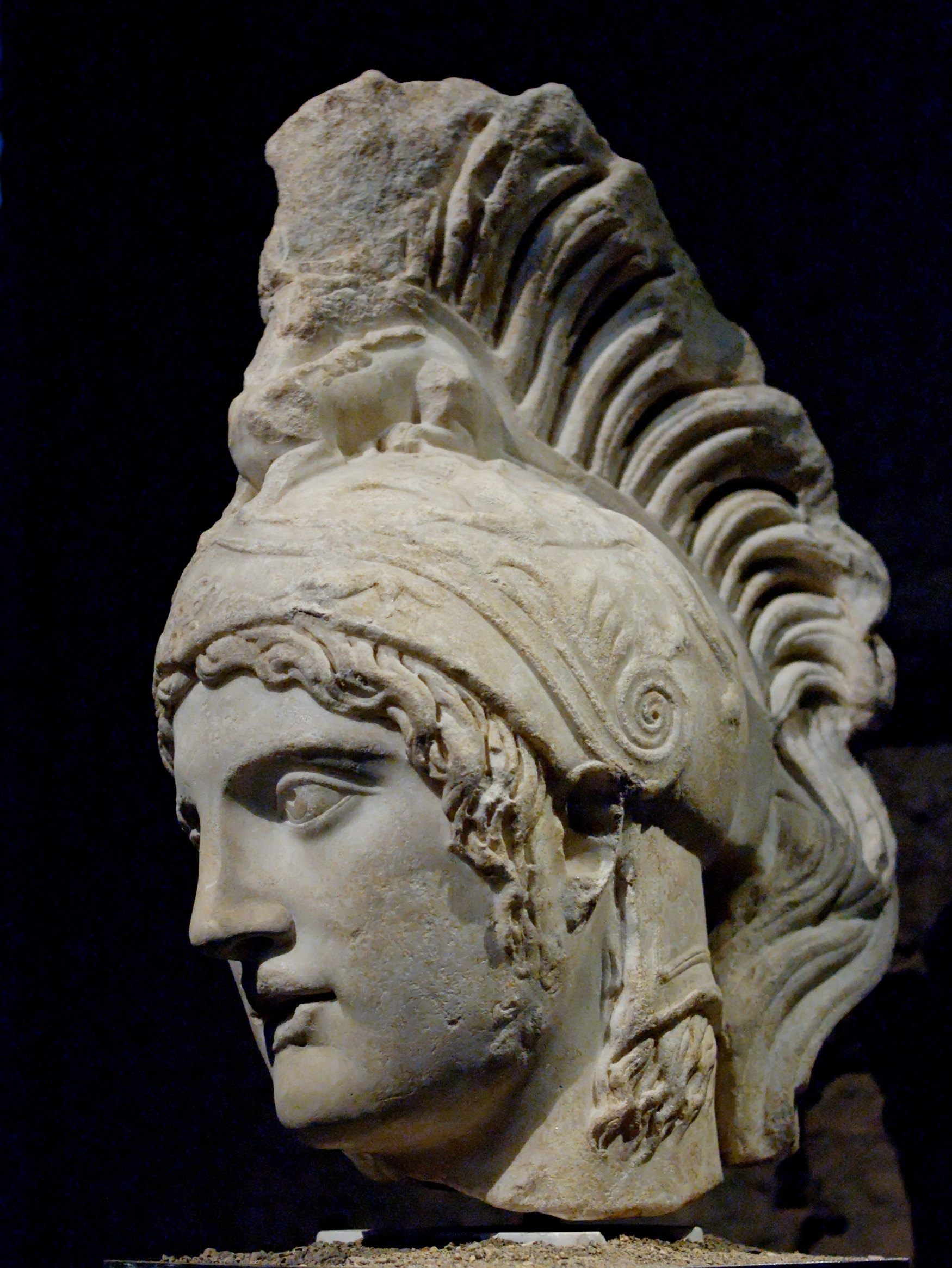 Ares. Copy of the Severian period after a Greek bronze original by Alkamenes dated 420 BC. From the sacred area in Largo Argentina, 1925.